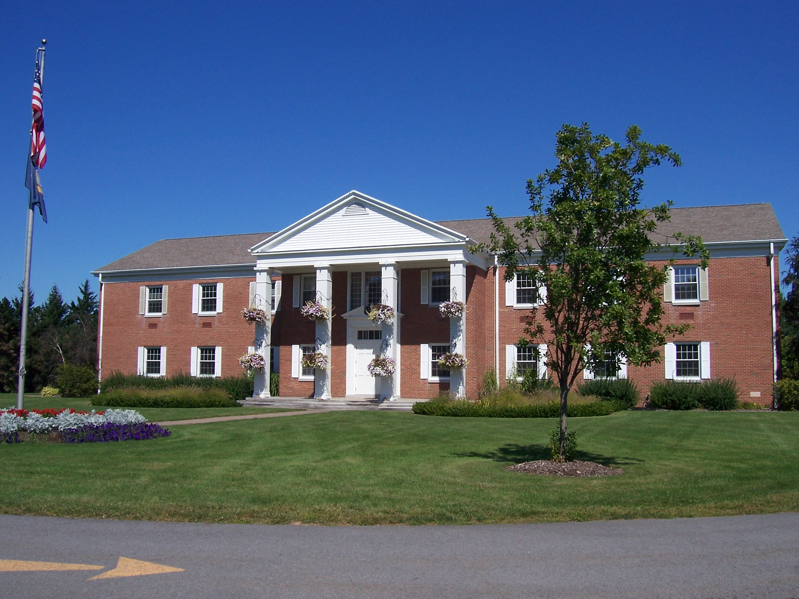 Penfield, New York town hall